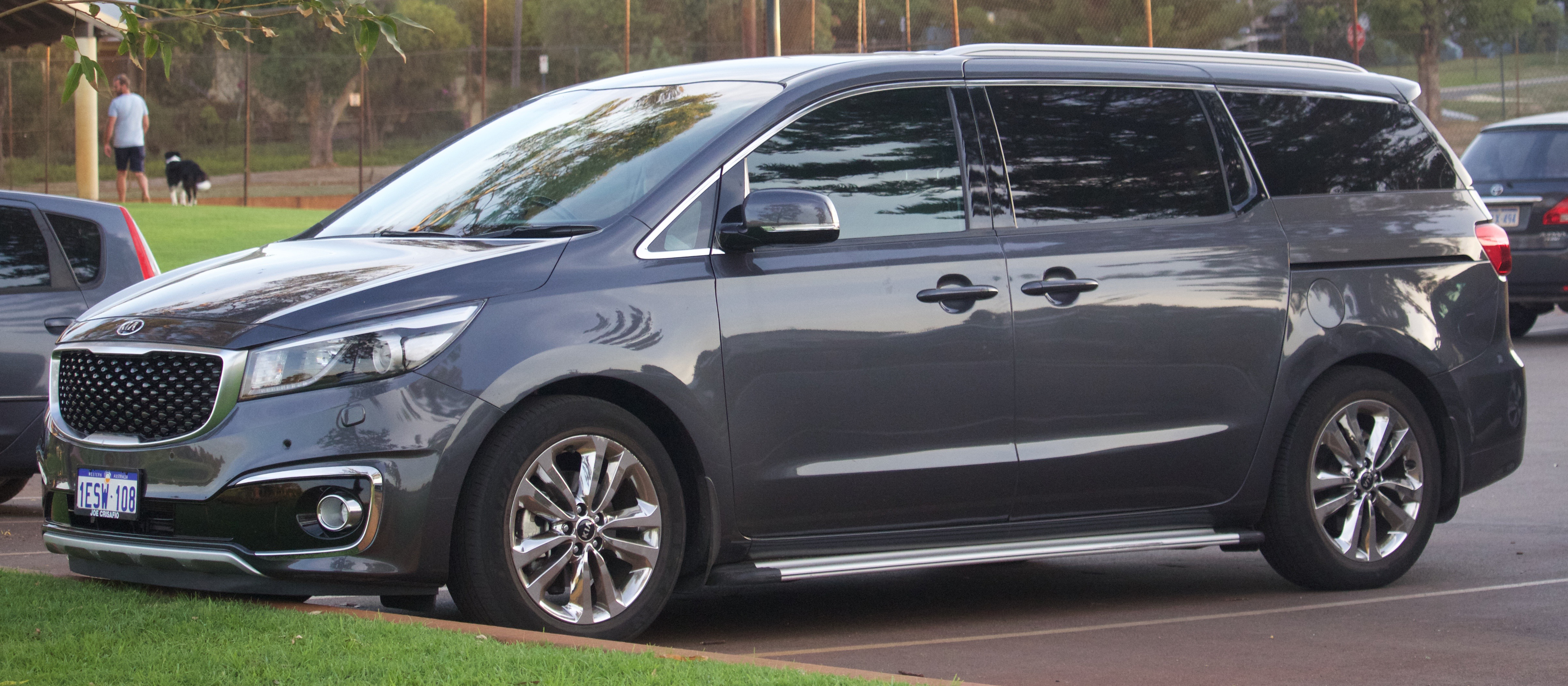 2015 Kia Carnival (YP) Platinum van. Photographed in Swanbourne, Western Australia Australia.